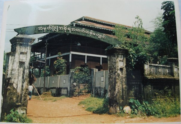 The image of the high school, No.9 BEHS Mawlamyine, also known as Shin Maha Buddhaghosa National School, before renovations in 2000s.